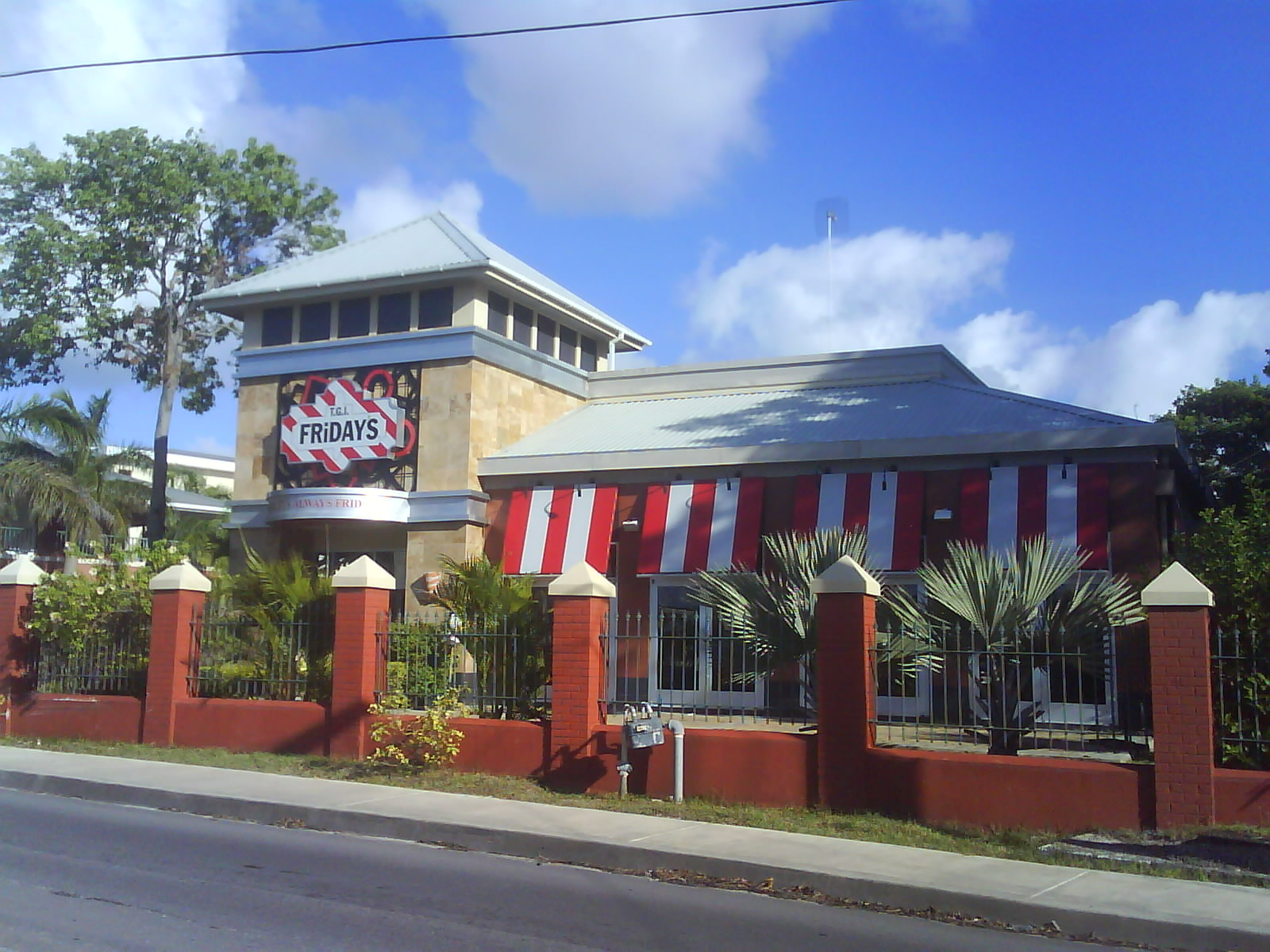 A T.G.I. Friday's along Highway 7, Hastings, Christ Church, Barbados, West Indies.